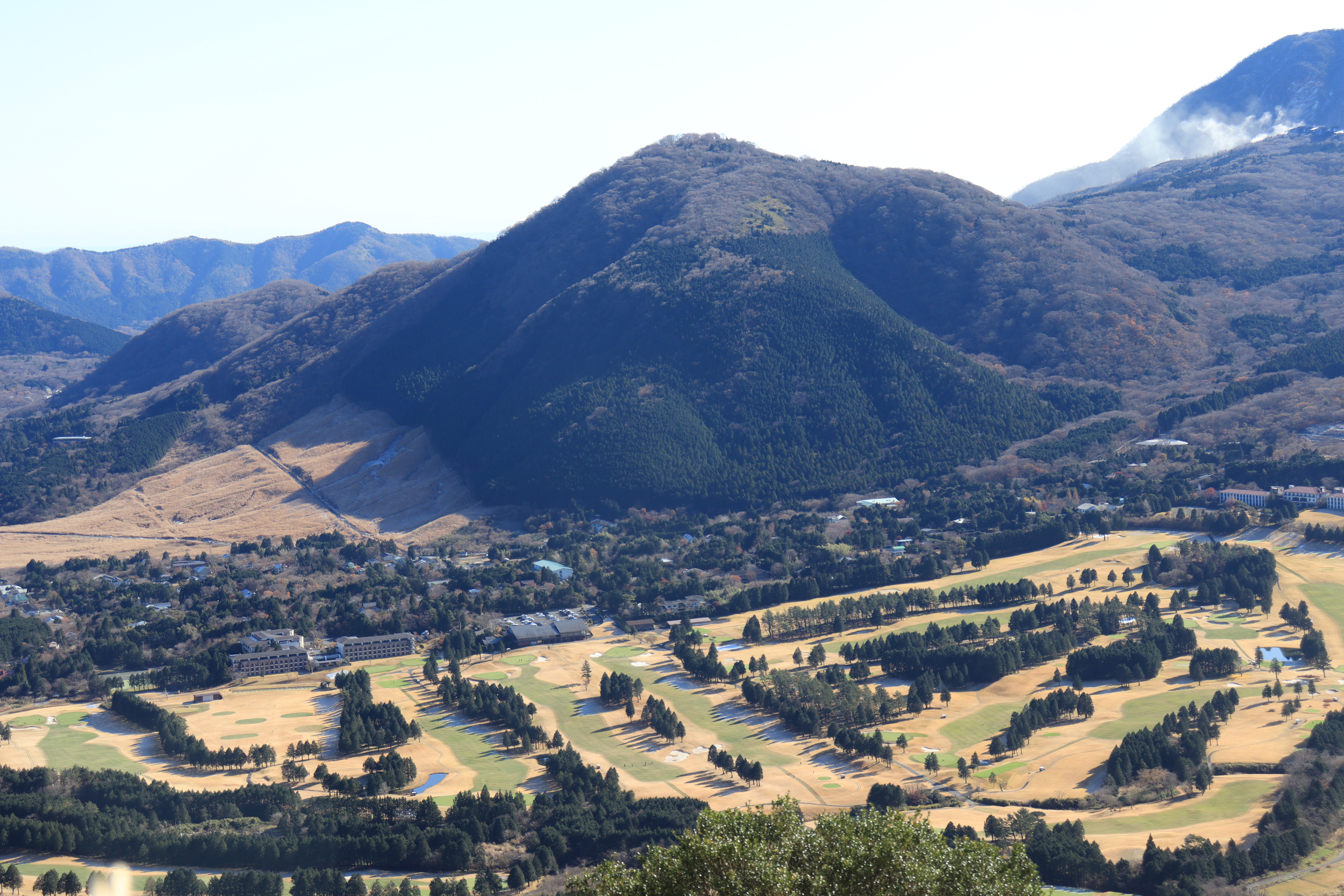 Mount Dai (Hakone volcano) in Hakone, Kanagawa Prefecture, Japan.